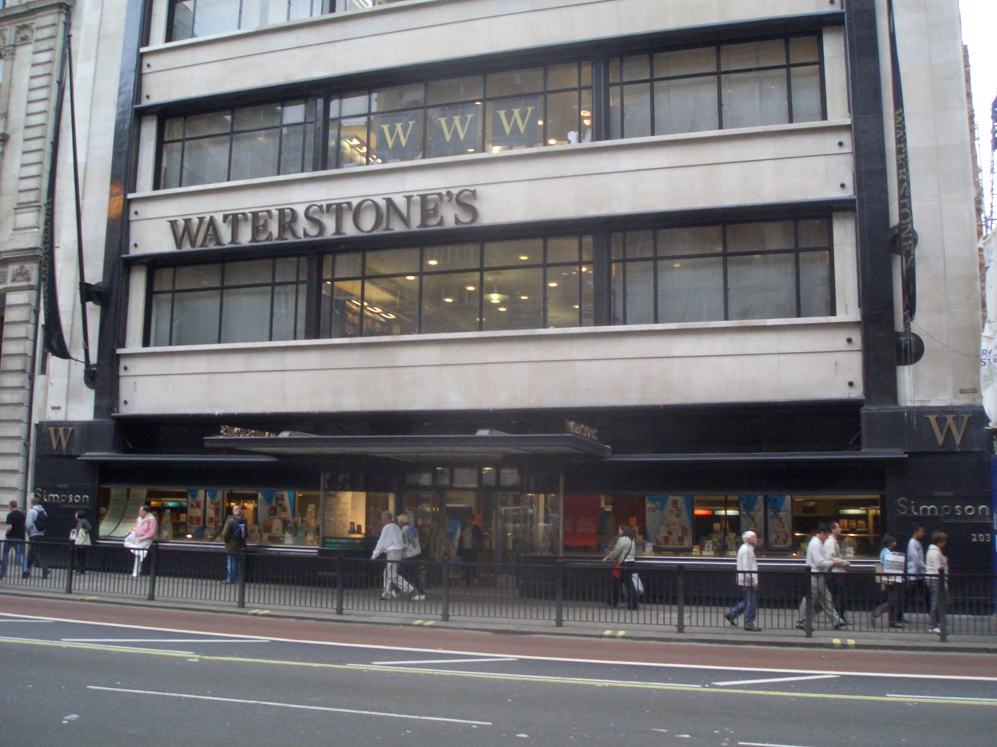 Waterstone's, Piccadilly is a branch of the Waterstone's chain of bookshops, located at 203-206 Piccadilly in central London. It was built in 1935–36 as Simpsons of Piccadilly, a quality menswear store. Taken by User:Edward